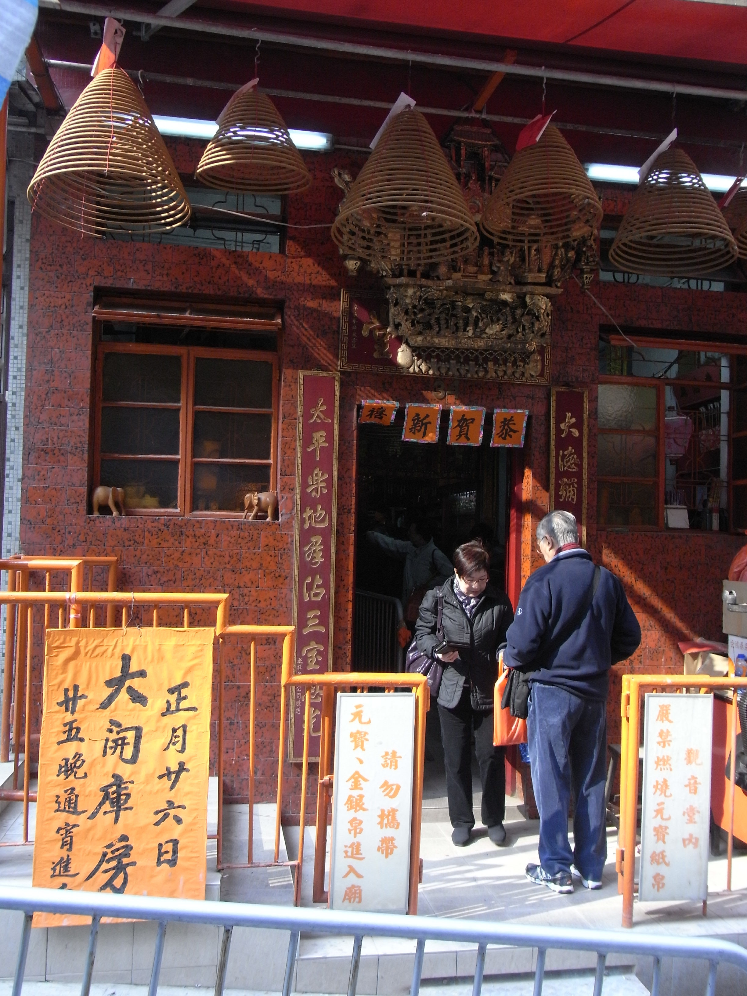 上環